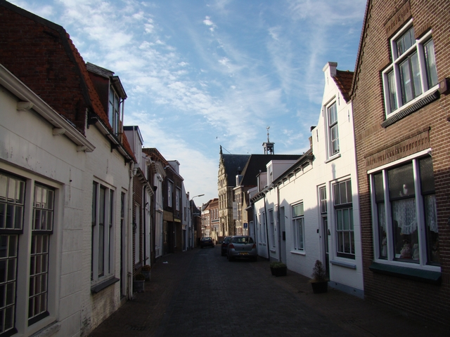 Impressions of Brouwershaven, Netherlands